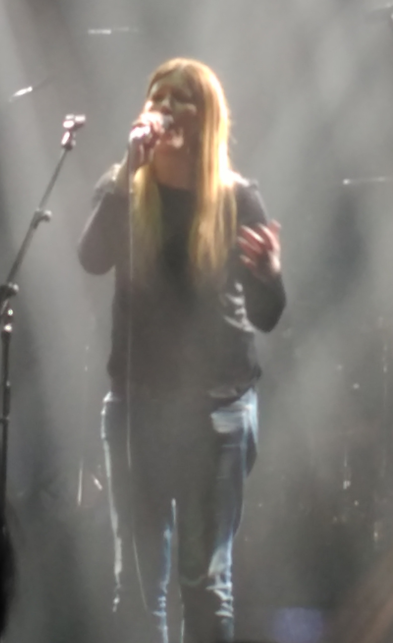 Jacqui Abbott, performing 25 March 2016